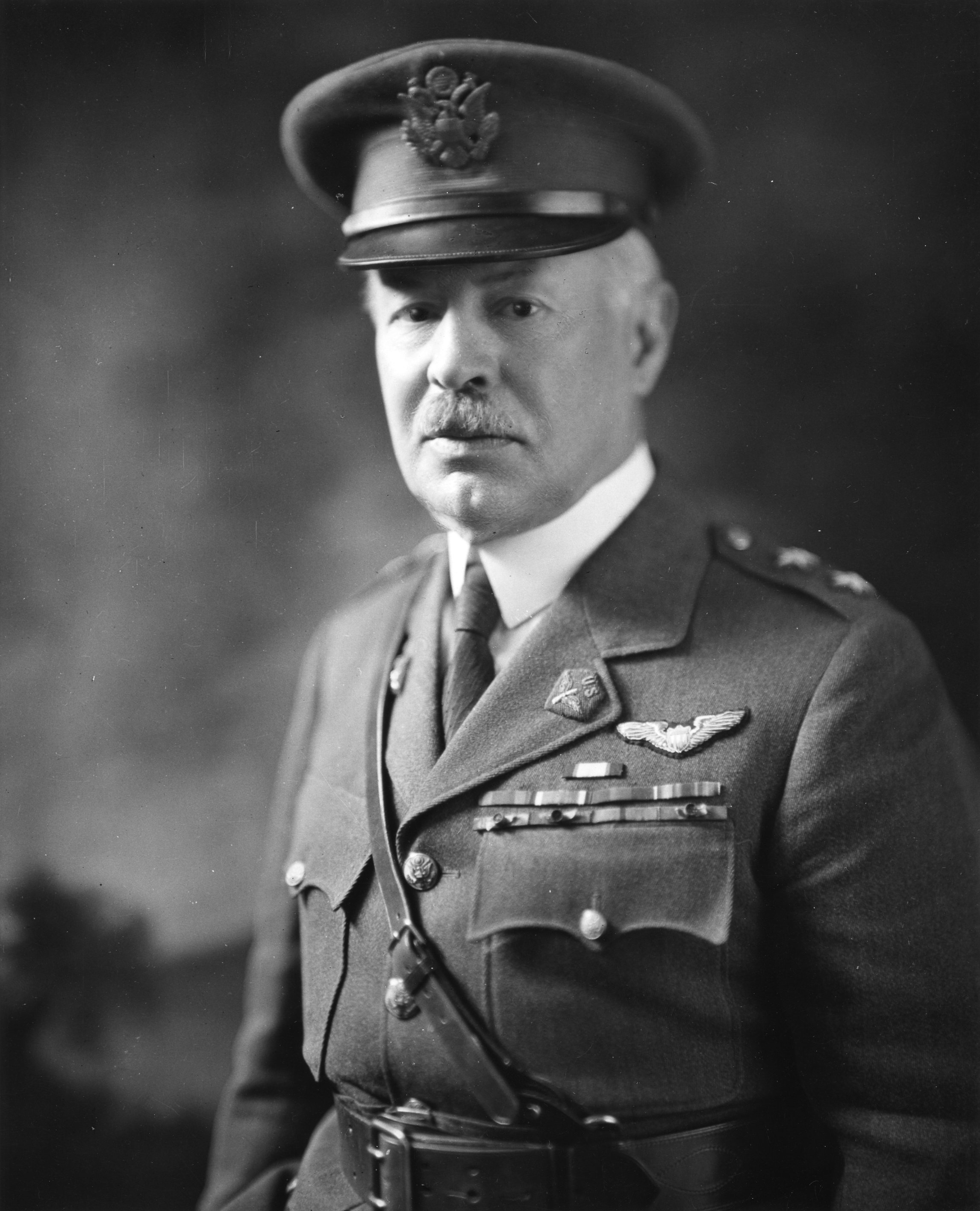 Major General Mason Patrick This appears to be an official portrait from the United States Army. Tagging as such. Removed from the following pages: Mason Patrick --OrphanBot 12:13, 15 February 2006 (UTC)